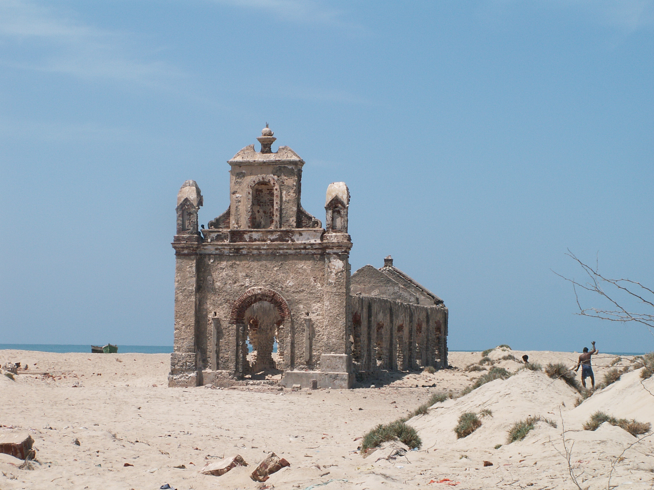 Ruined Church at Dhanushkodi.